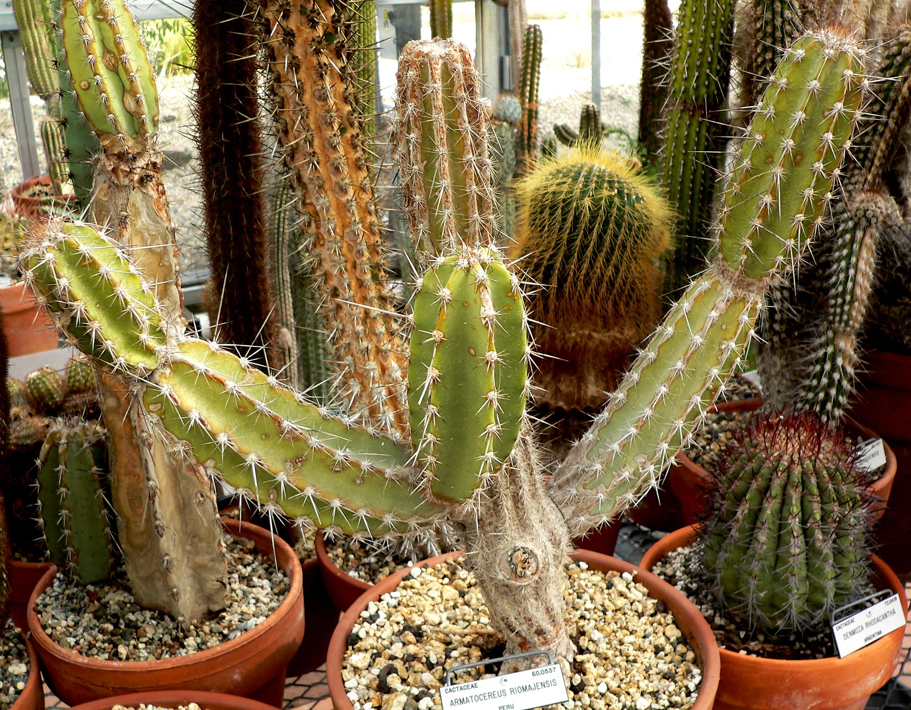 Photo of Armatocereus riomajensis at the University of California Botanical Garden